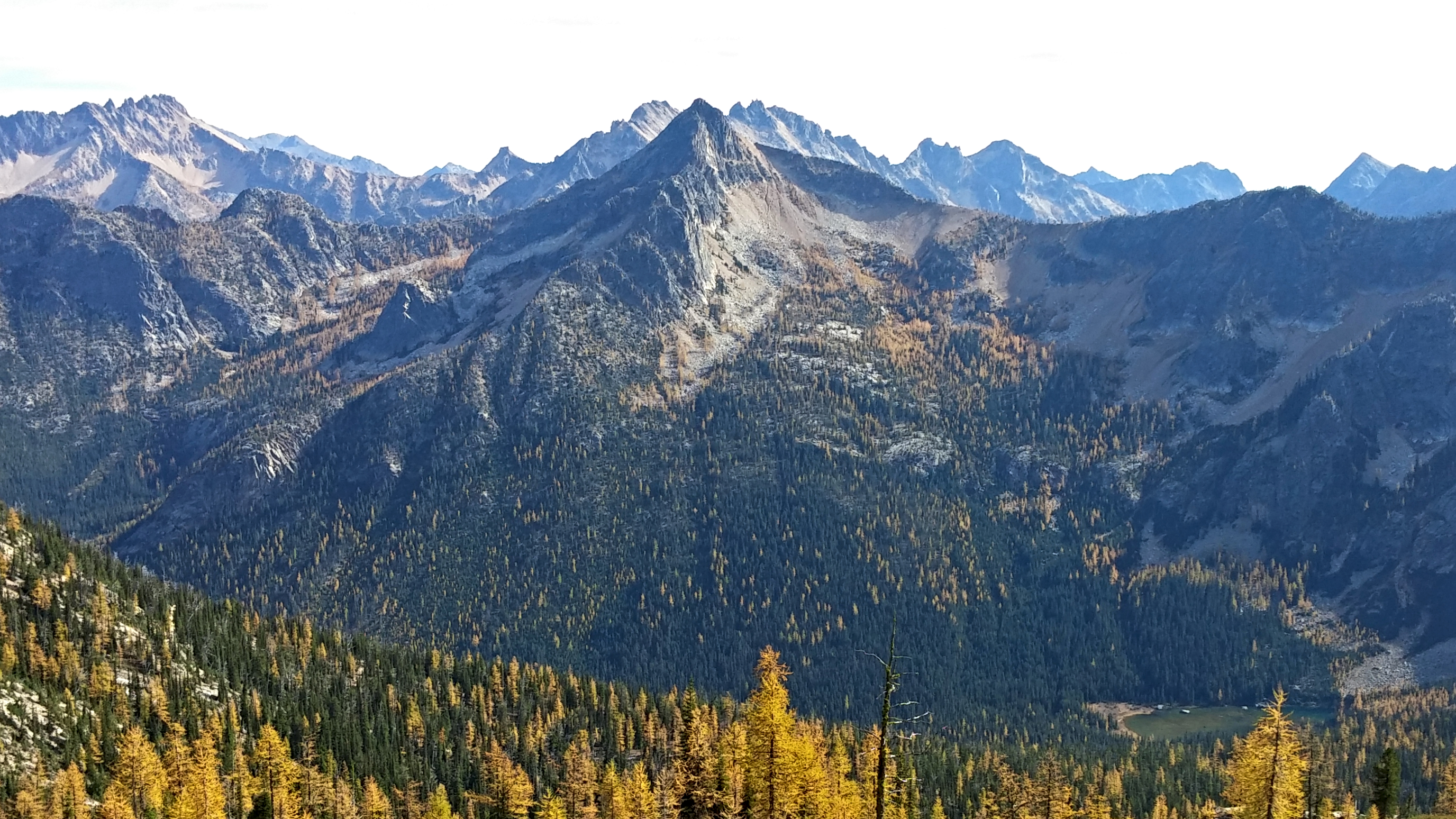 Hinkhouse Peak seen from Pacific Crest Trail at Cutthroat Pass